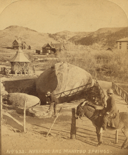 Cropped section from File:Navajoe and Manitou springs, Colorado, from Robert N. Dennis collection of stereoscopic views.jpg